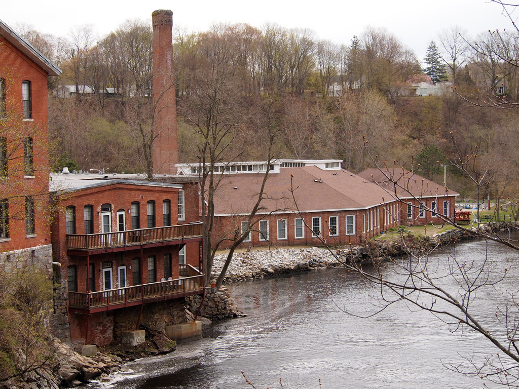 Connecticut - New London County - Norwich National Register of Historic Places #72001344 NRIS 2011 Apr 22 Mill smoke stack and buildings from across the river; view E edit: none (Currently condos and apartments)